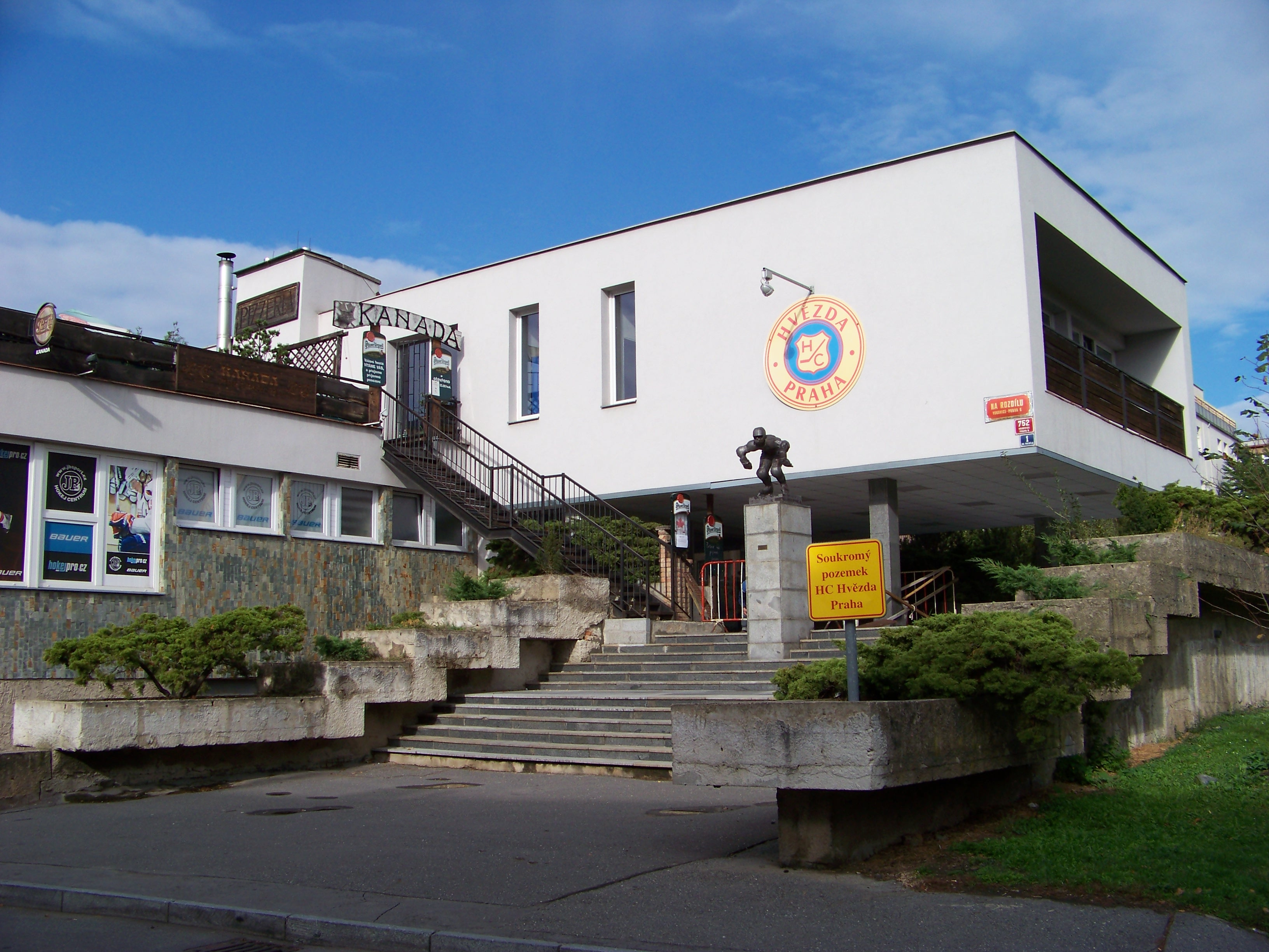 Prague-Vokovice, the Czech Republic. Na rozdílu 752/1, ice hockey stadium of HC Hvězda.